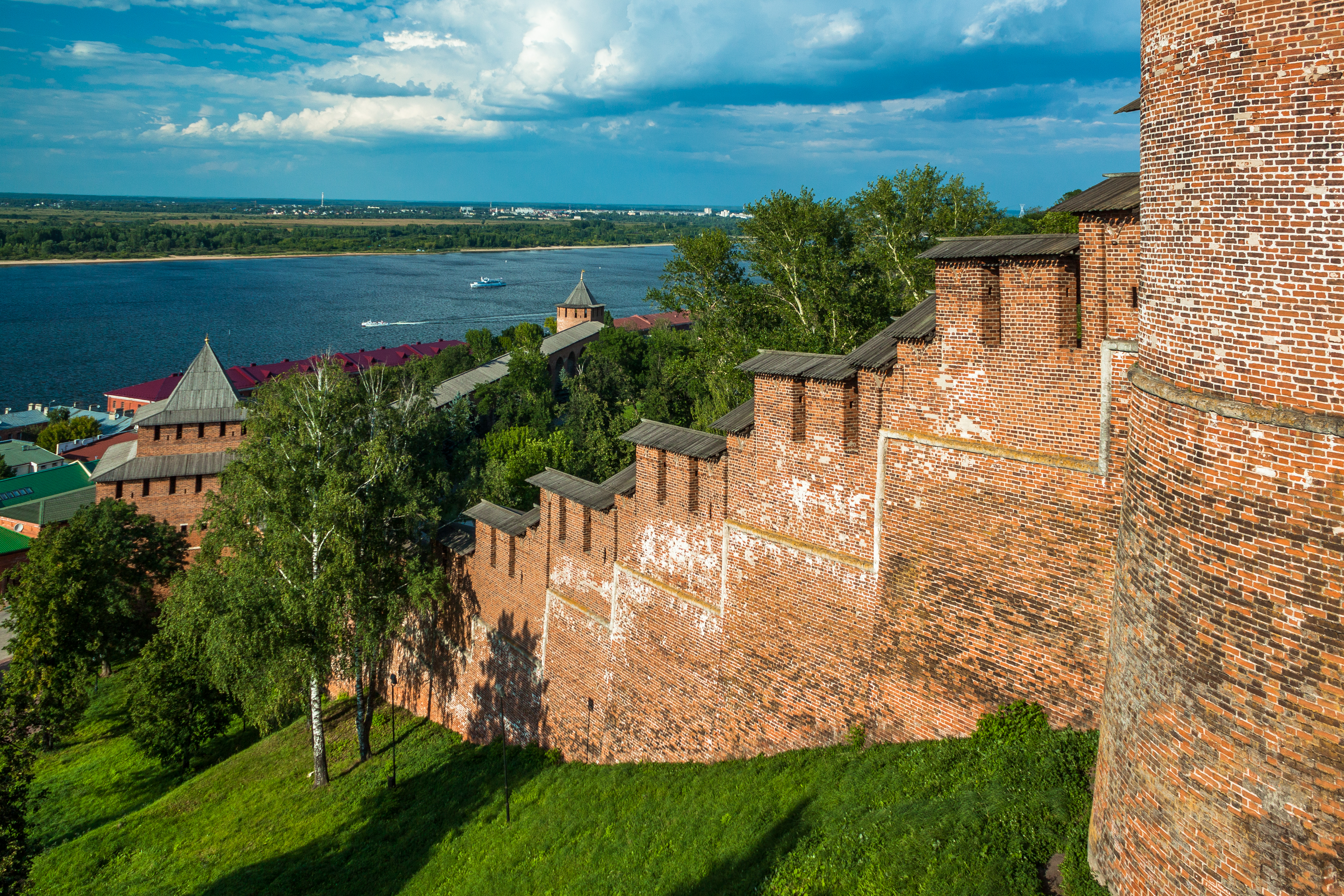 Defensive wall of Nizhny Novgorod kremlin between Chassovaya and Ivanovskaya towers